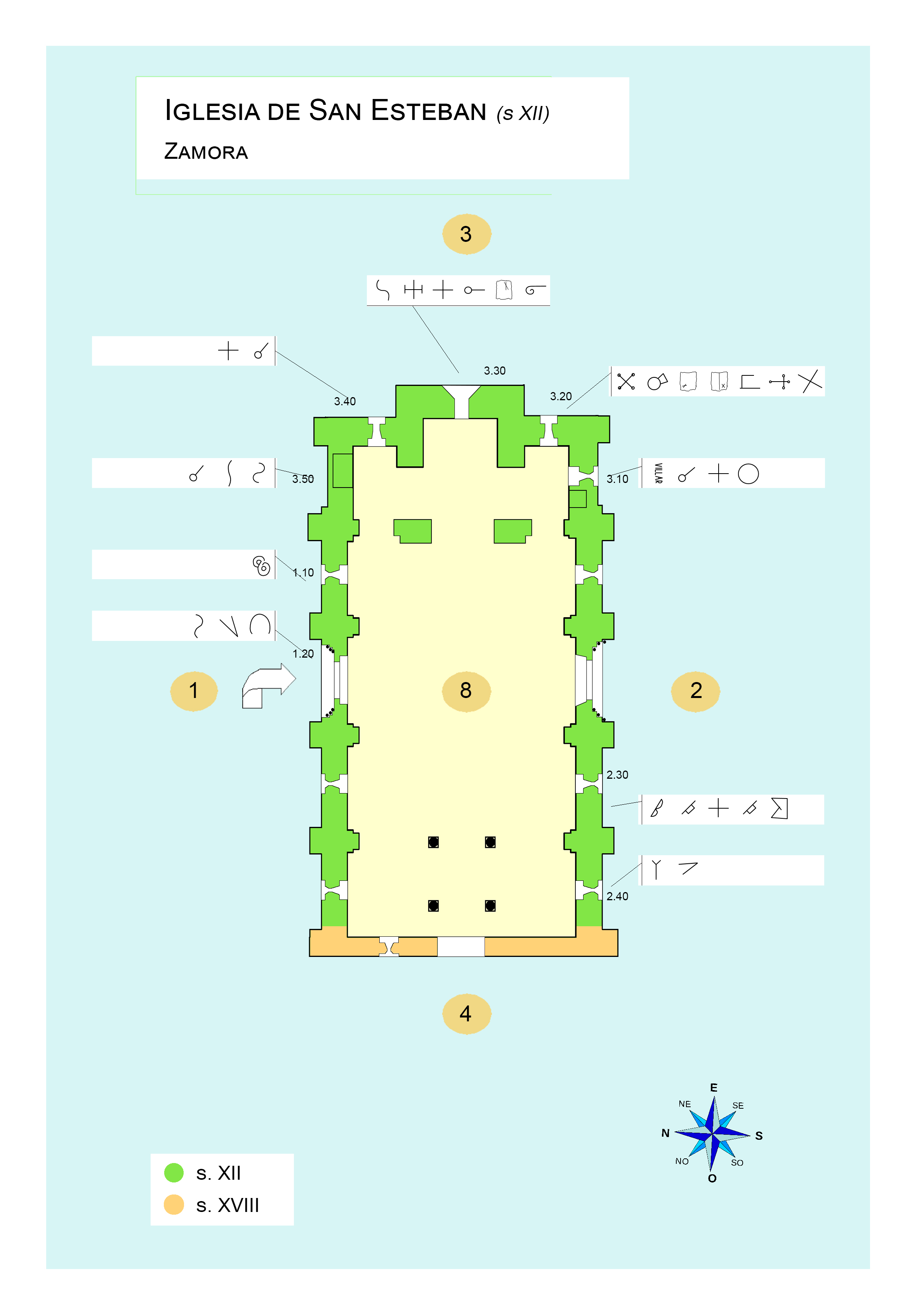 San Esteban church, ZAMORA Spain, romanesque s. XII-XIII. Plan appro. and stonecutter mark catalog.